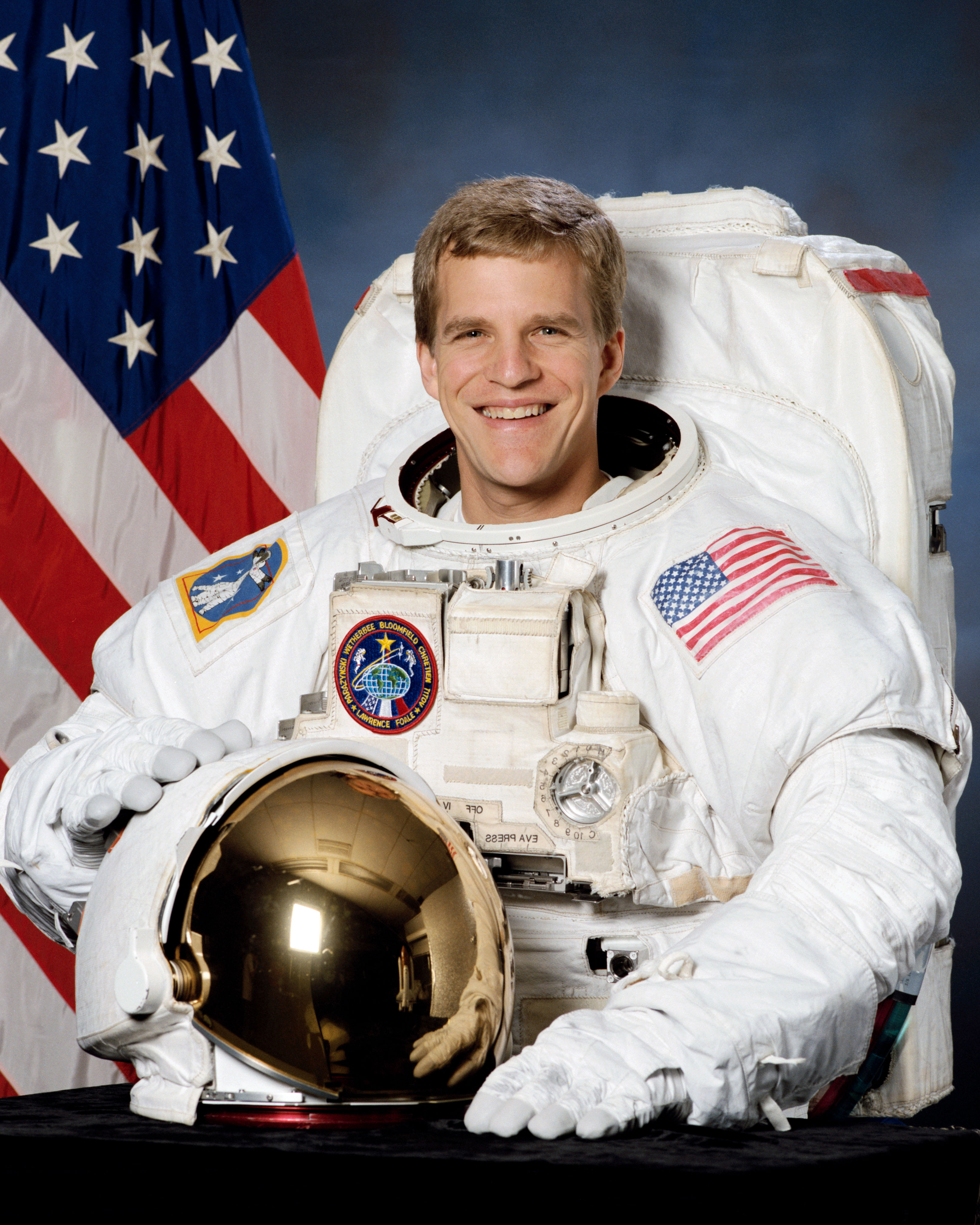 Portrait of Dr. Scott Parazynski